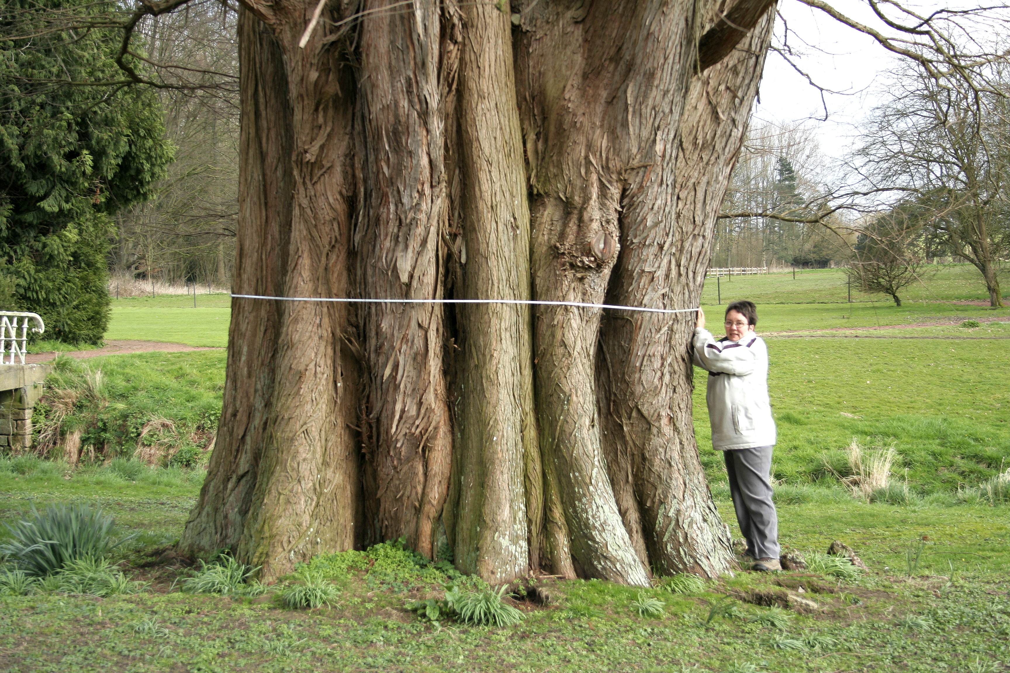 Baldcypress Taxodium distichum